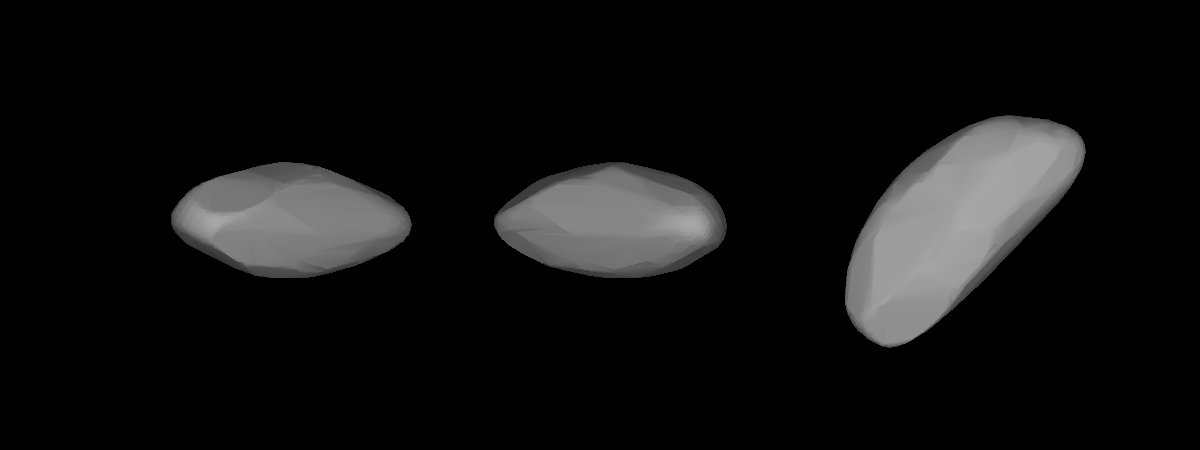 A three-dimensional model of 1627 Ivar that was computed using light curve inversion techniques.